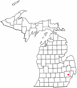 The location of Pontiac.